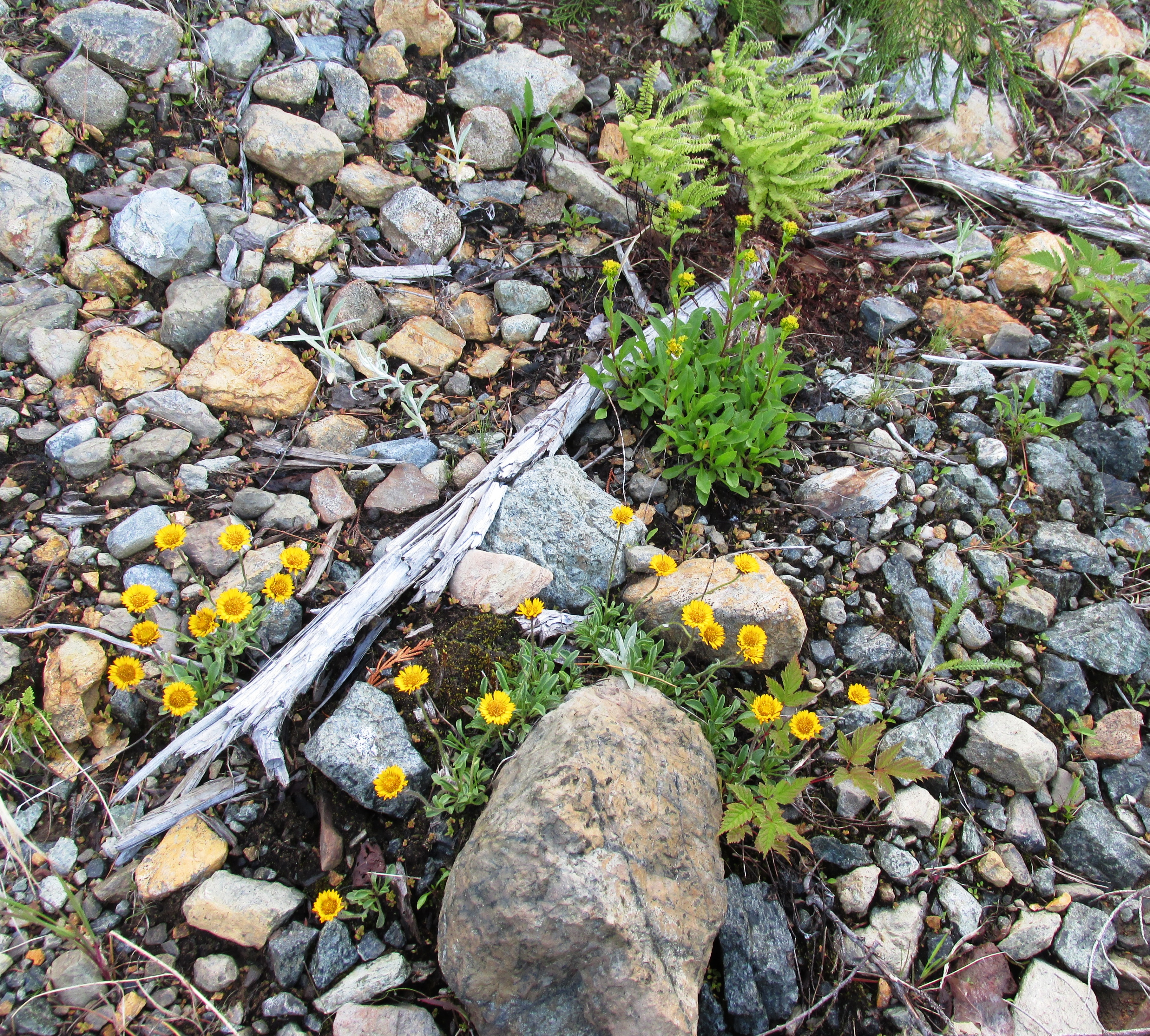 Showing Solidago multiradiata (northern goldenrod) in middle, Erigeron aureus (golden daisy ) on lower left and right, with Adiantum aleuticum (western maidenhair fern) above in rocky serpentine soil. Serpentine habitat - on approach route to North Twin Sister mountain, 1160 meters (3800 feet) Whatcom County, Washington, USA